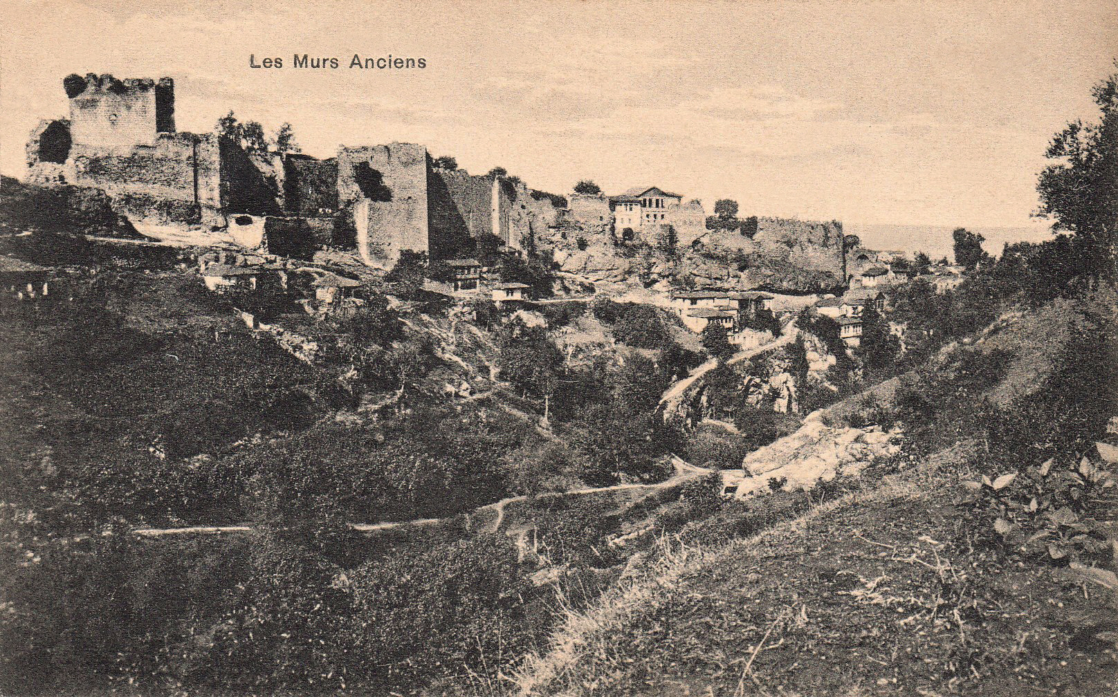 Postcard of the ancient walls of Trebizond (Trabzon, Turkey).